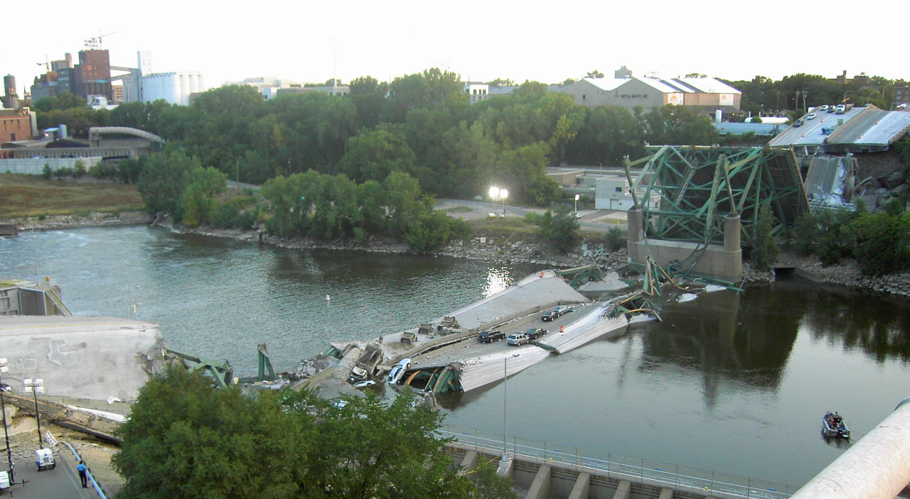 The scene at the I-35W Mississippi River Bridge, the first morning after its collapse.